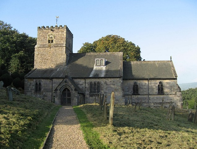 All Saints Parish Church, Kirby Underdale, East Riding of Yorkshire, England.The Parish Church is dedicated to All Saints.